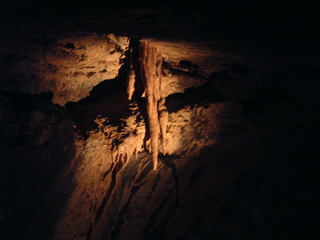 Aillwee Cave. Stalactites at Aillwee Caves, Ballyvaughan, Co. Clare.